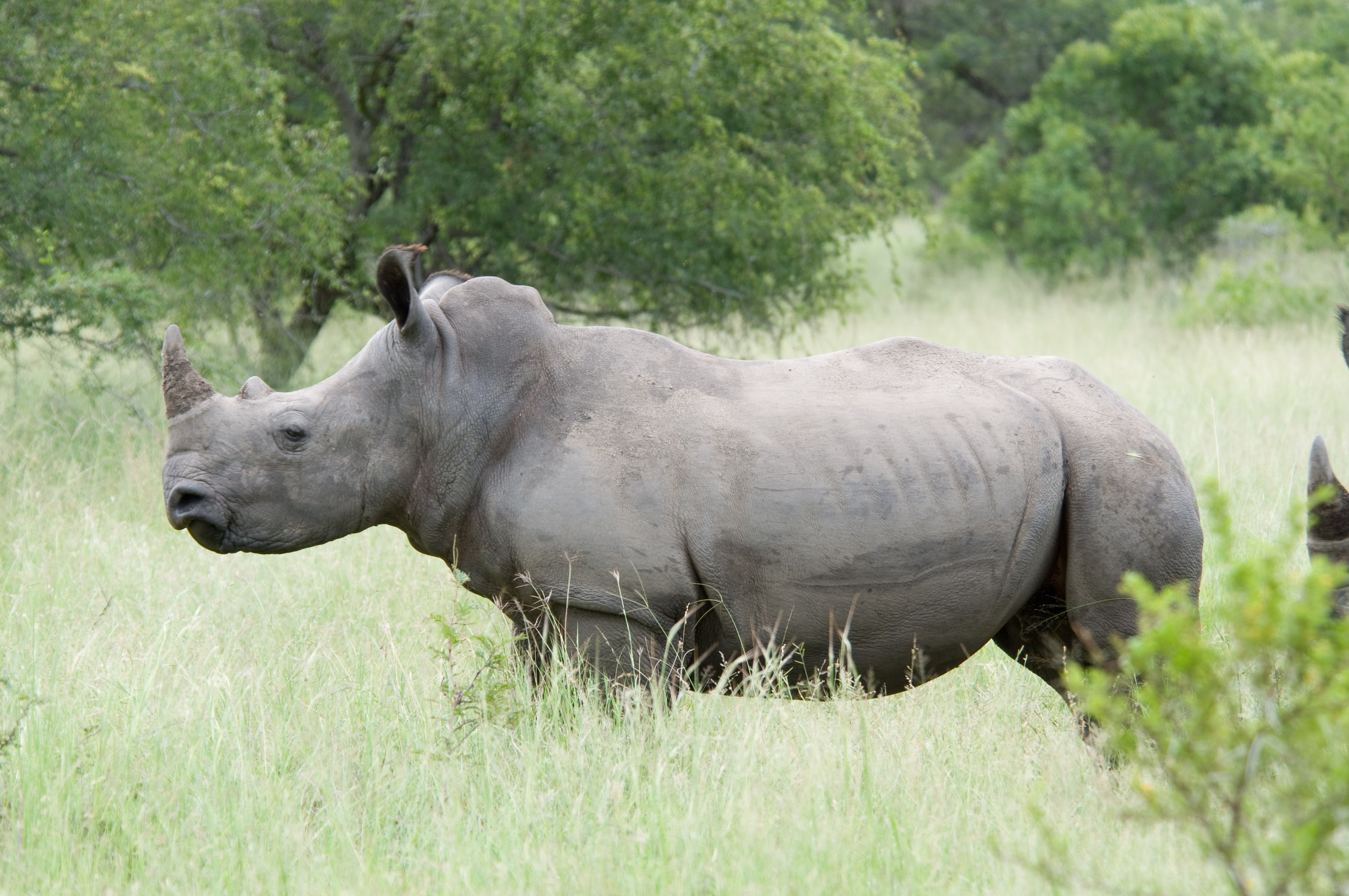 White rhinoceros (Ceratotherium simum)